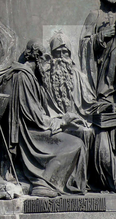 Feodosij Pecherskij on the Monument "Millennuim of Russia" in Veliky Novgorod